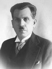 Kâzım Pasha (Özalp)